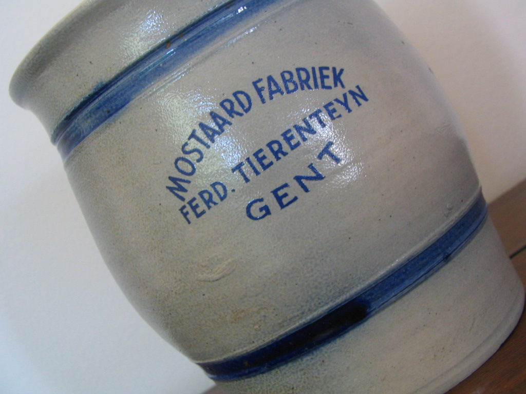 Earthenware mustard pot Ferdinand Tierenteyn